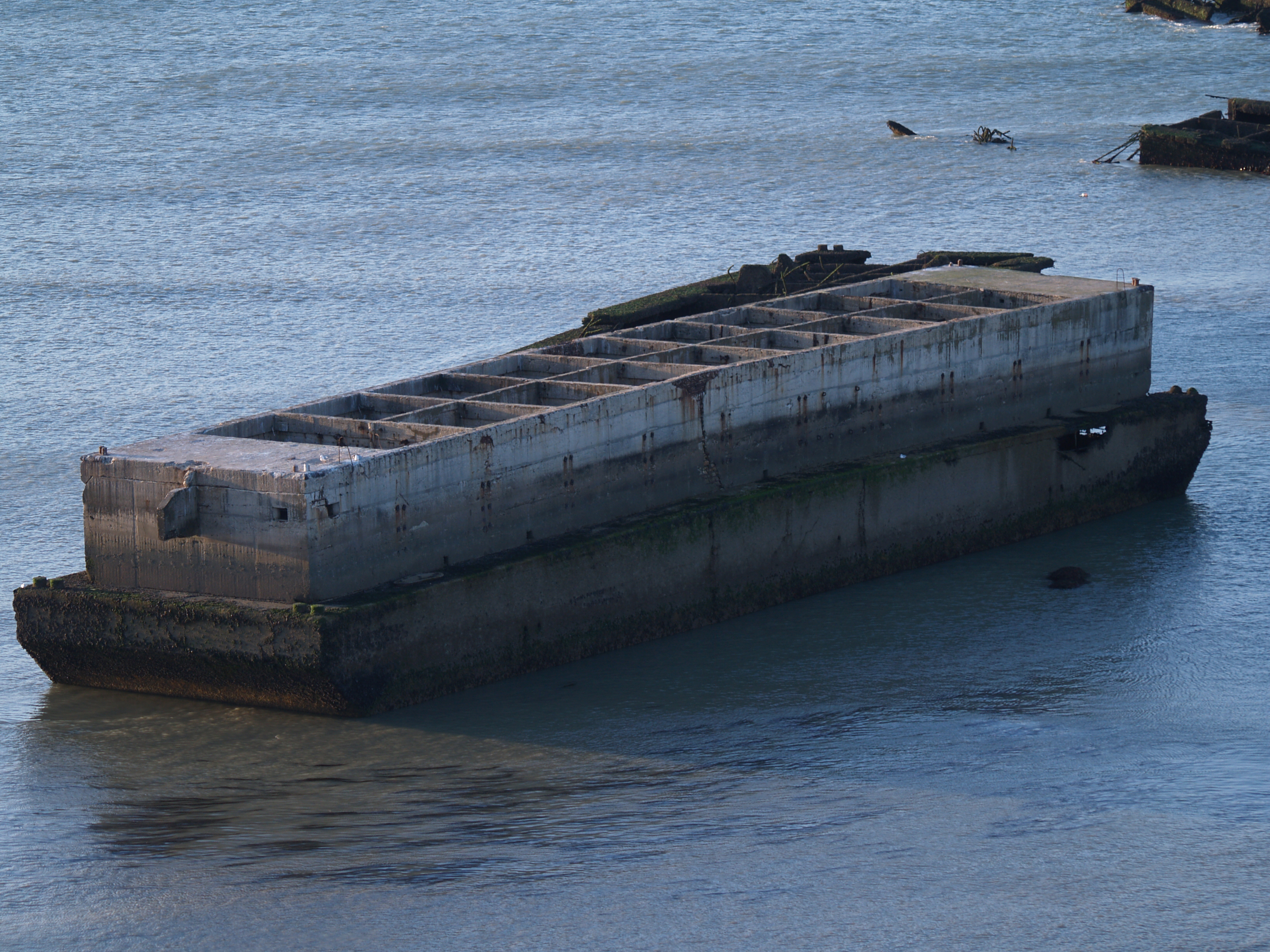 Mulberry harbour